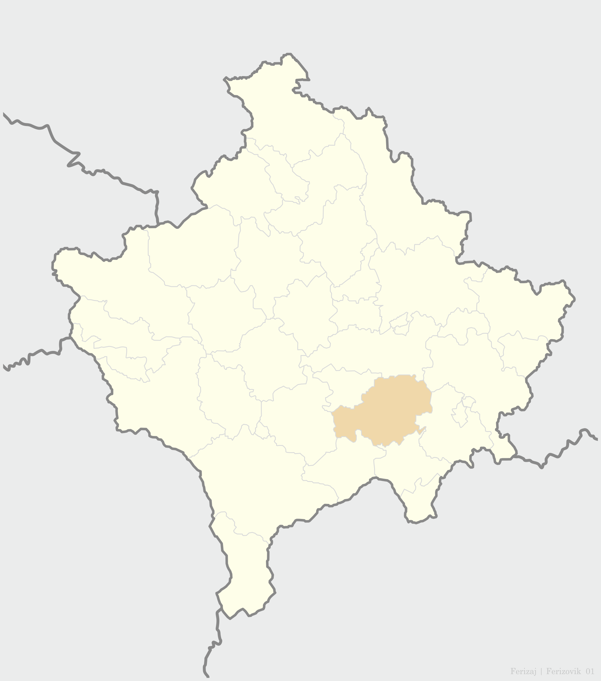 Municipality of Urosevac map